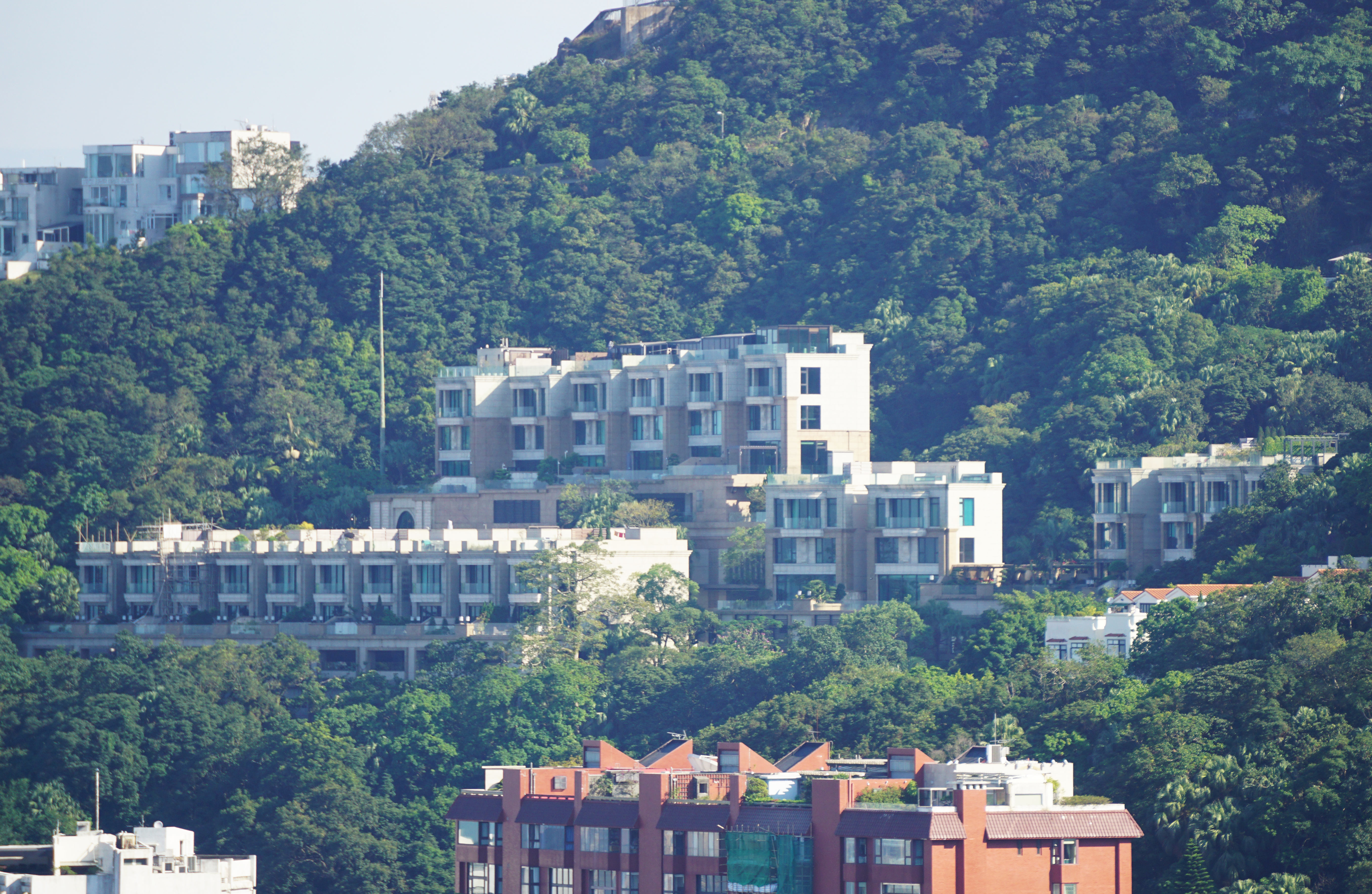 Severn 8 in Mount Gough, Hong Kong.